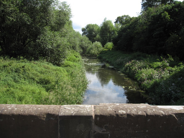 Aldford Brook south of Aldford Bridge - August 2009. A pleasant tranquil view south from the historic sandstone bridge at Aldford. However, in times of flood, the water level rises substantially - See 1612949